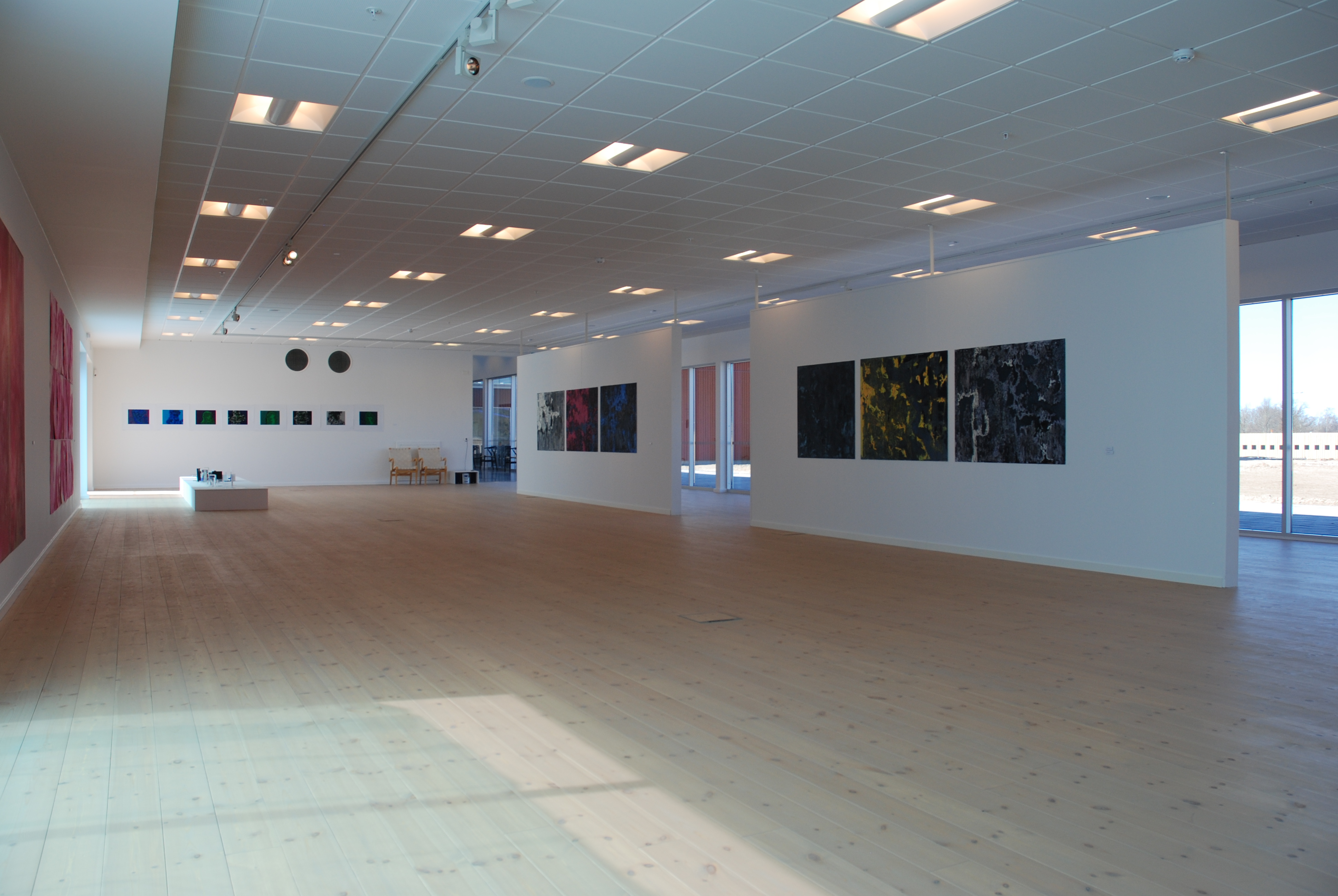 Vandalorum, Art Centre, Värnamo Sweden